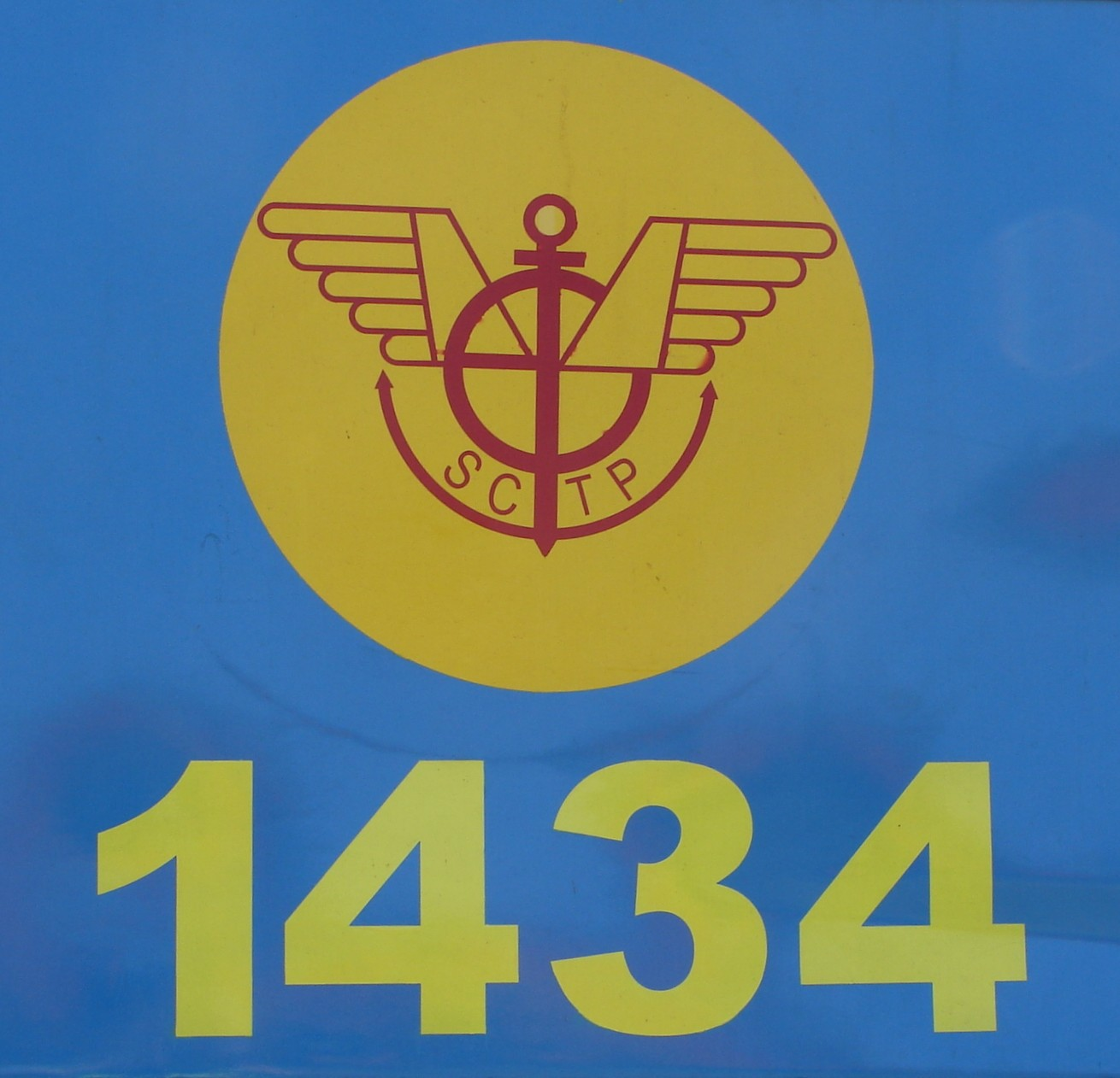 SCTP logo on ex South African Class 33-000, sold to the Congolese Company for Transportation and Ports (SCTP, formerly Onatra) and numbered 1434Type: GE U20CLocation: Koedoespoort, Pretoria